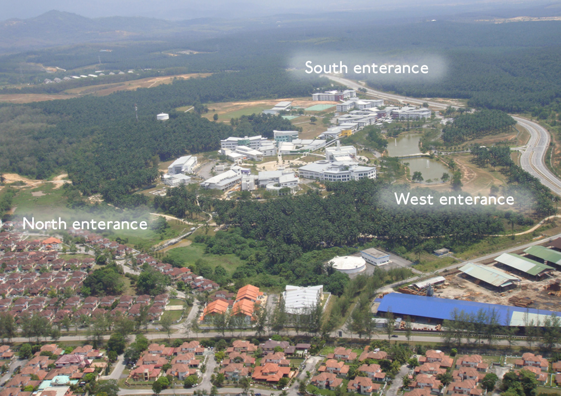 An aerial photograph of the University of Nottingham Malaysia Campus